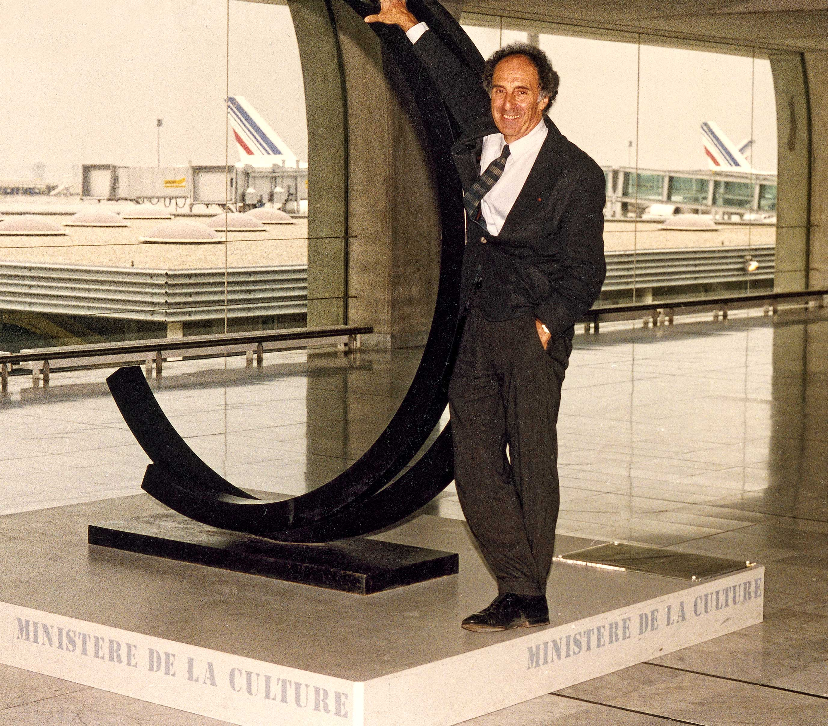 Paul Andreu in 1996